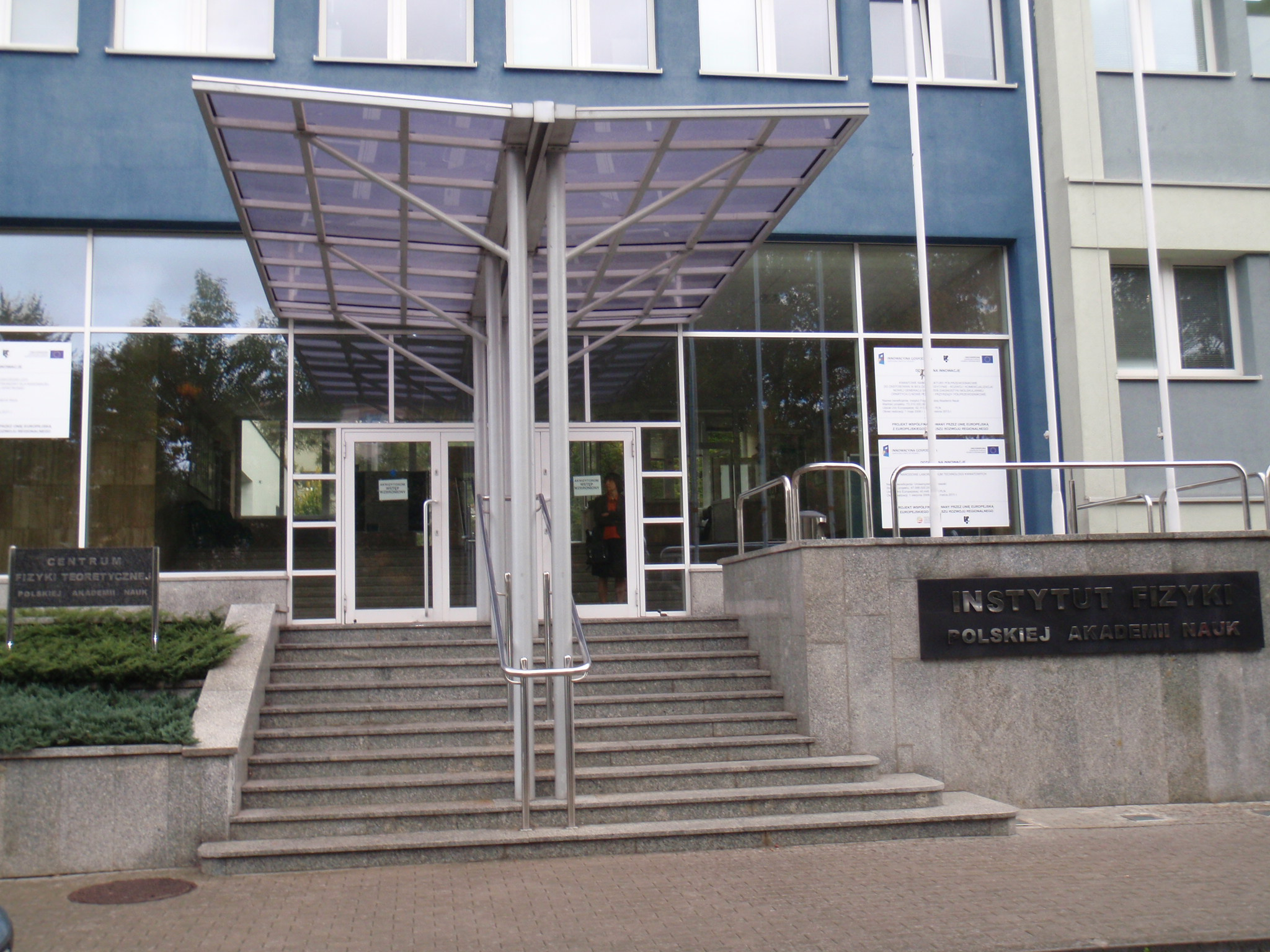 Institute of Physics of Polish Academy of Sciences in Warsaw